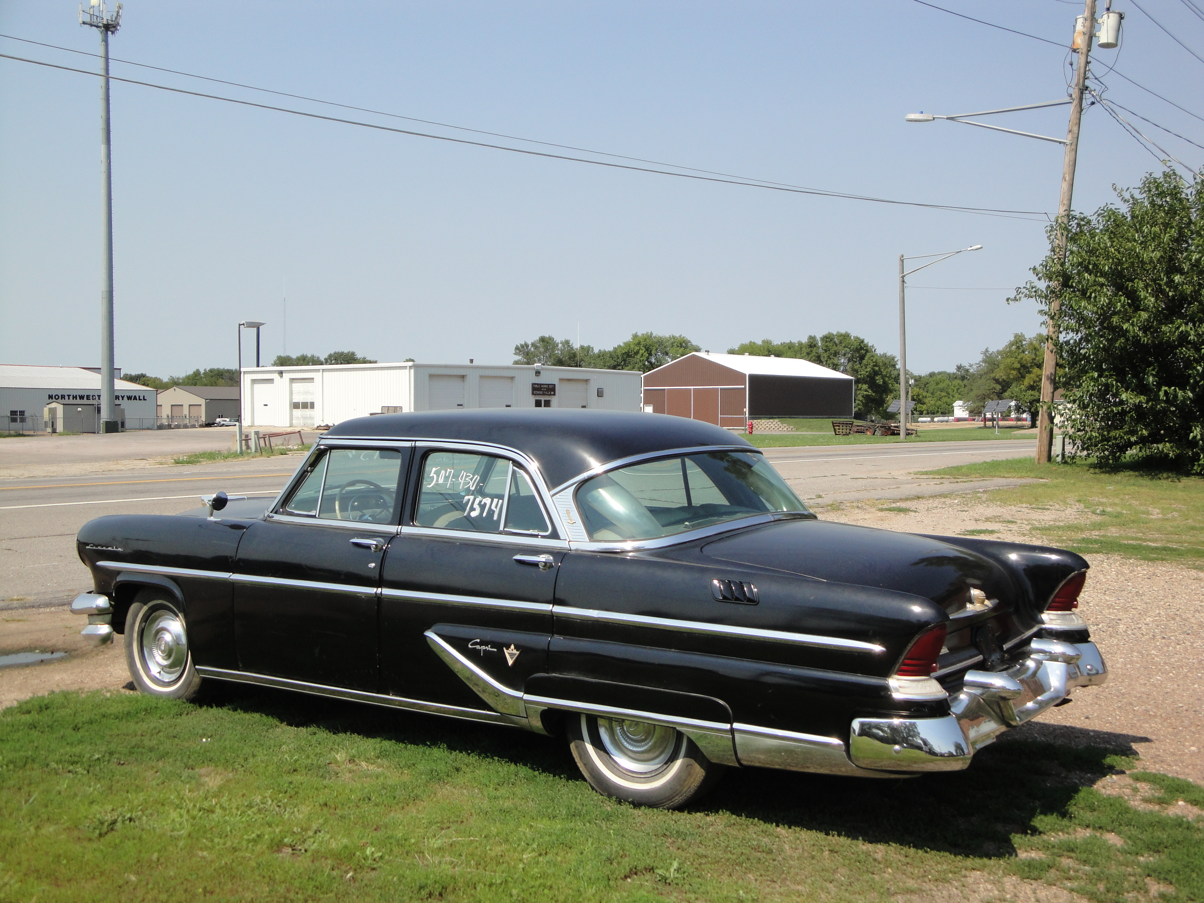 with A/C (air conditioning)